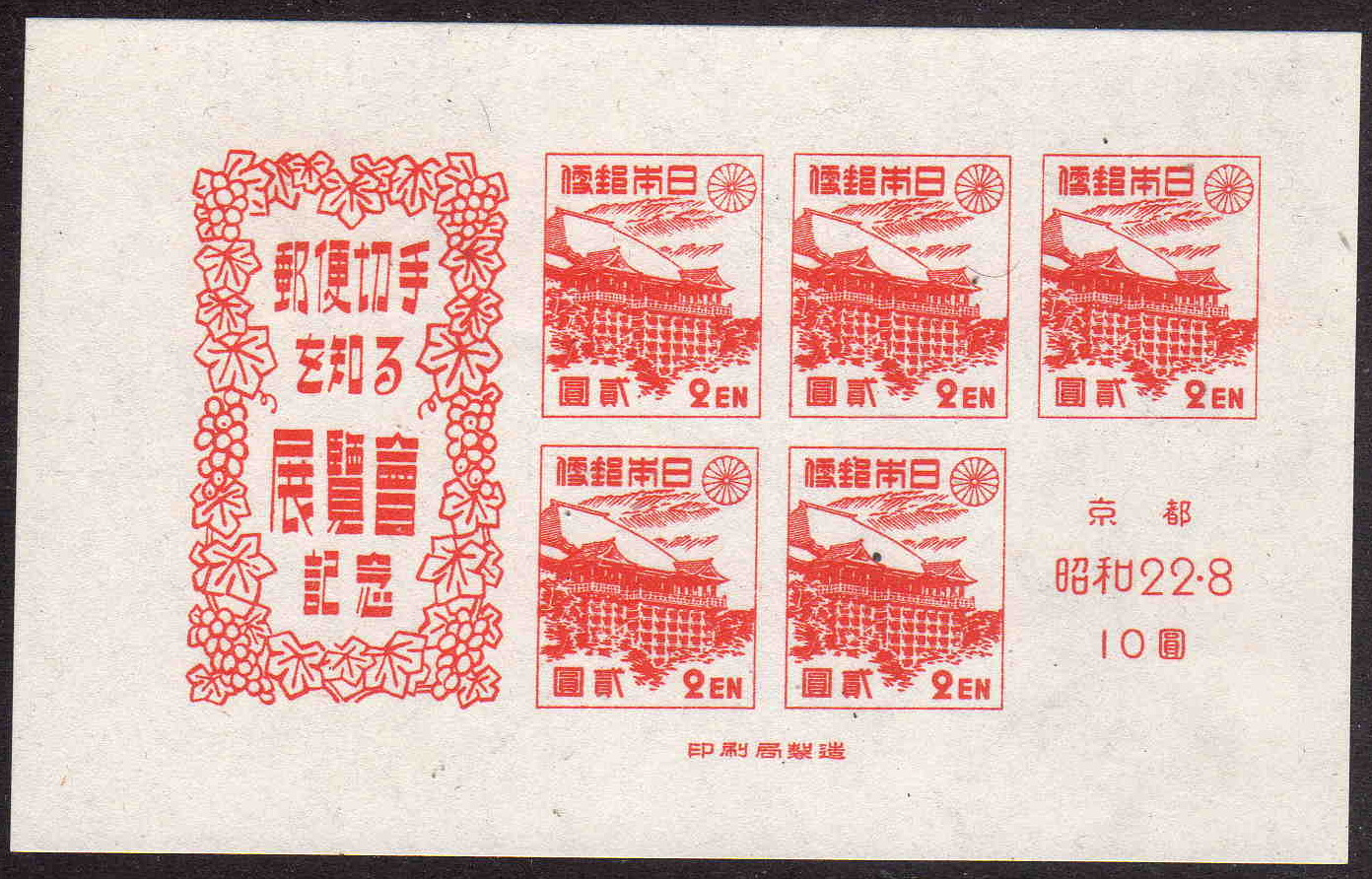 Kyoto Philatelic Exhibition in 1947